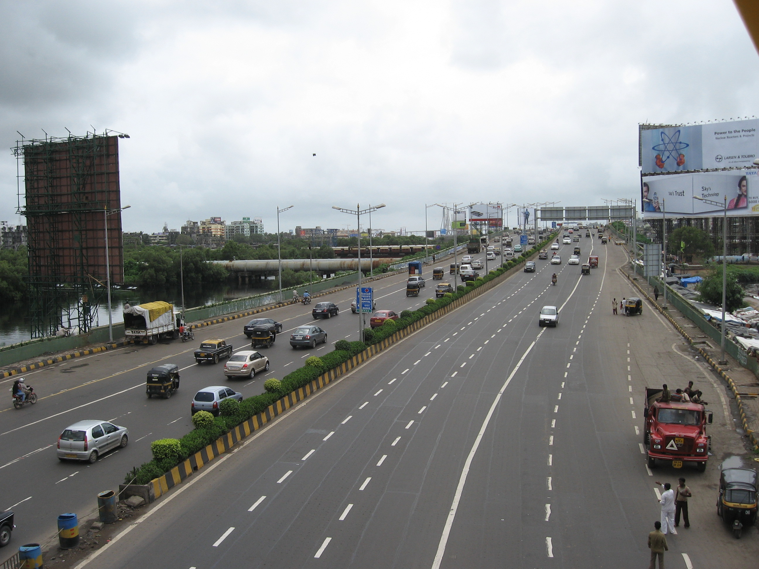 The Western Express Highway, an arterial North-South road in suburban Mumbai